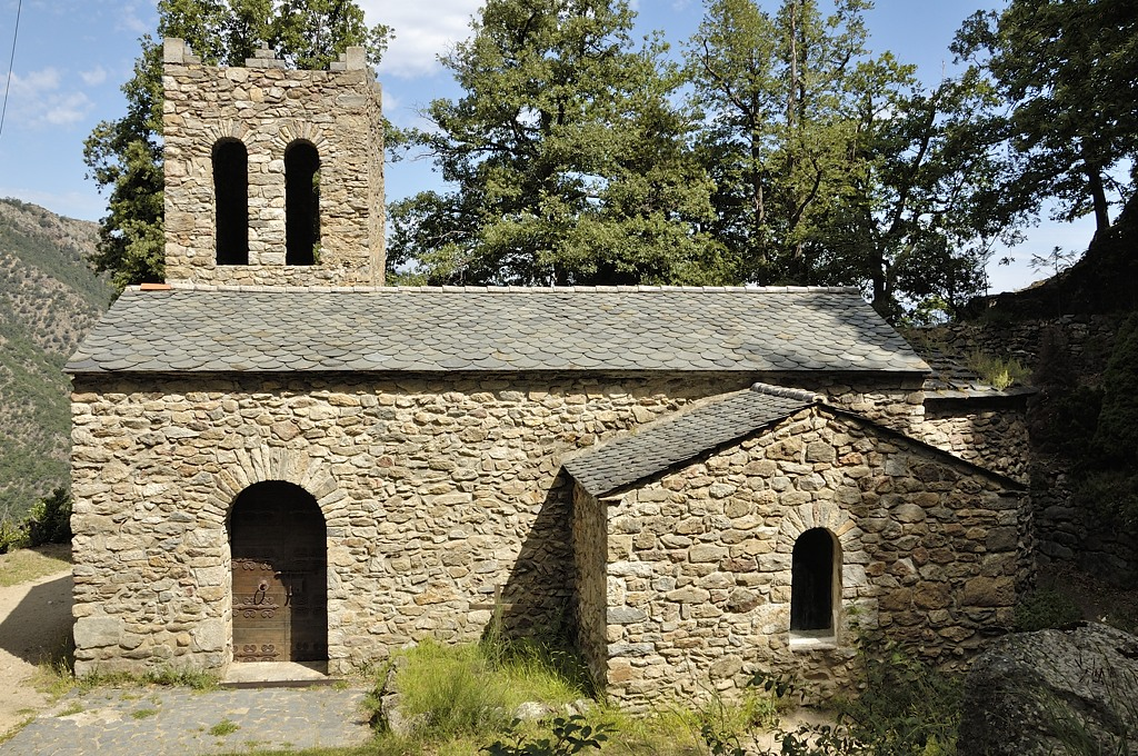 Saint-Martin-le-Vieux, Casteil